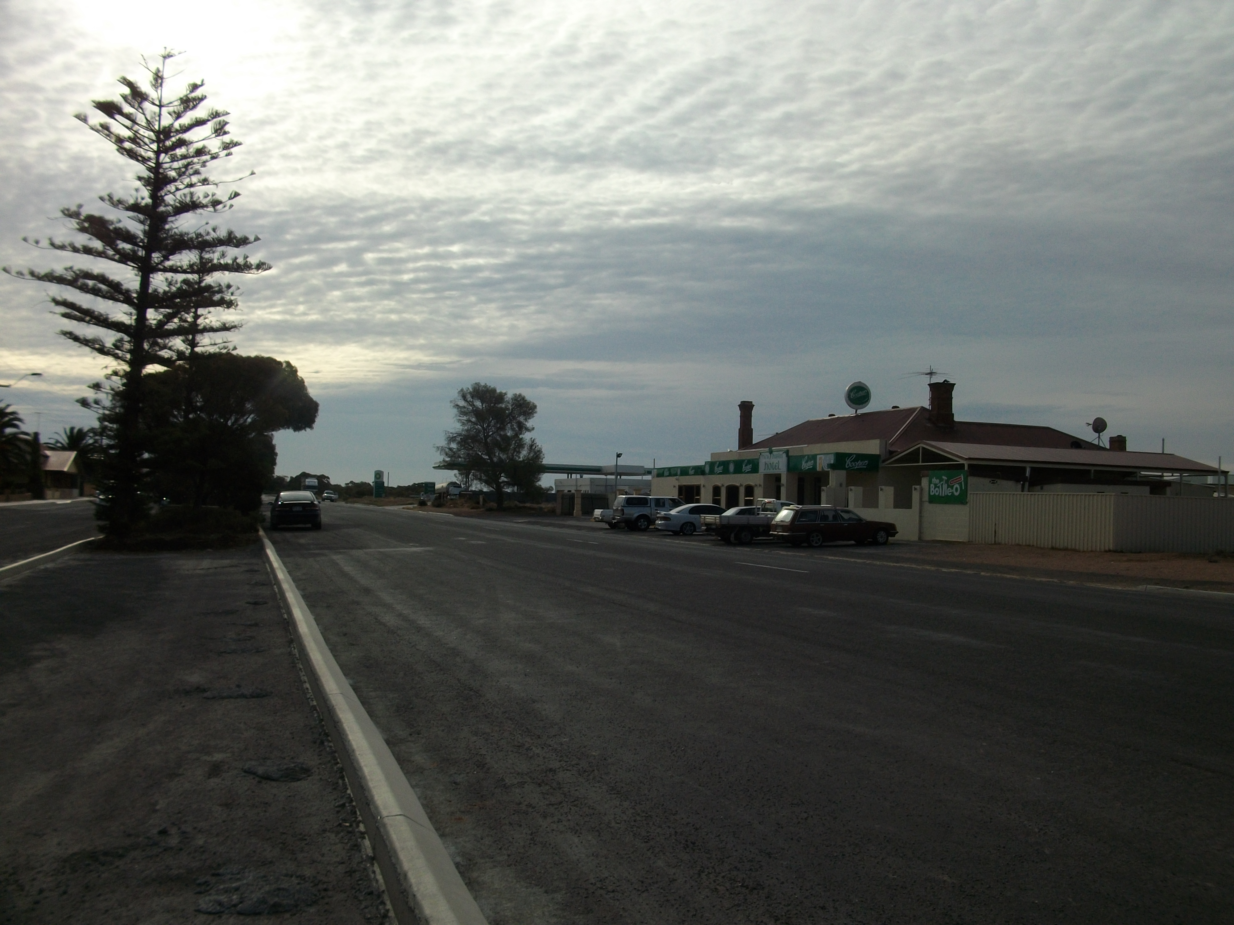 Main road through Dublin, South Australia